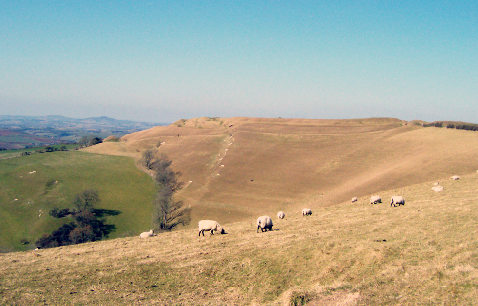 Photograph of Eggardon Hill, Dorset, UK, taken 19 March 2006. Photo by James Mulholland.